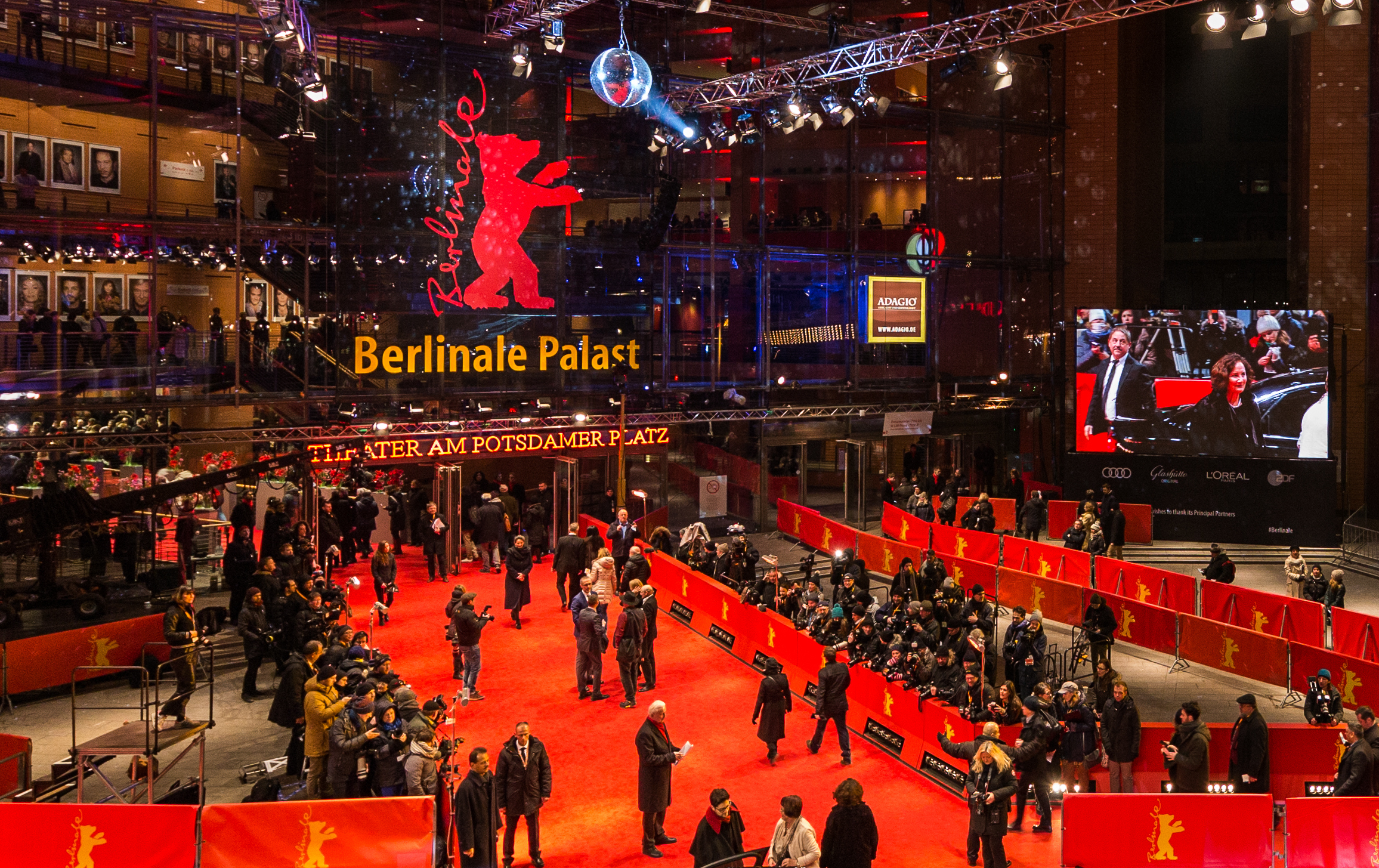 The red carpet during at the Berlinale Palast 2017